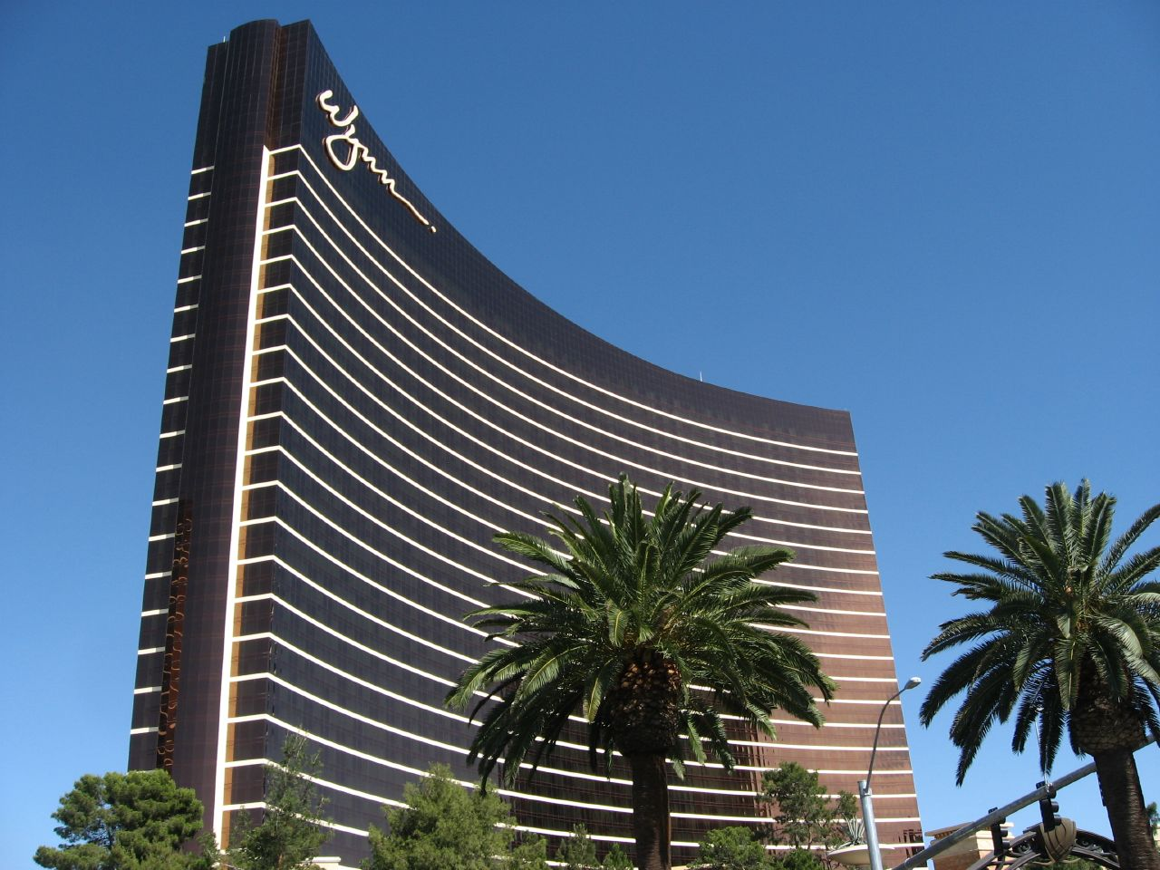 Wynn Las Vegas, often referred to as simply the Wynn, is a luxury resort and casino located on the Las Vegas Strip in Paradise, Nevada. The US$2.7 billion resort is named after casino developer Steve Wynn and is the flagship property of Wynn Resorts Limited. The resort covers 215 acres (87 ha). It is located on Las Vegas Boulevard and Sands Avenue (on the N.E. corner), directly across The Strip from the Fashion Show Mall. The 614-foot (187 m) high hotel has 45 floors, with the 2,716 rooms range in size from 640 sq ft (59 m2) to the villas at 7,000 sq ft (650 m2). The complex also includes a 111,000 sq ft (10,300 m2) casino, a convention center with 223,000 sq ft (20,700 m2) of space, and 76,000 sq ft (7,100 m2) of retail space. Together with the adjacent Encore, the entire Wynn resort complex has a total of 4,750 rooms. The resort has earned AAA five diamond, Mobil five-star, Forbes five-star, and Michelin five star ratings for hotel, as well as one Michelin star for restaurant Wing Lei. and is considered to be one of the finest hotels in the world. Wynn Las Vegas and its sister property Encore Las Vegas collectively hold more Forbes five-star awards than any other resort and casino in the world. Wynn Las Vegas also made Forbes Award history by earning five-star ratings in every category—Hotel, Restaurant, and Spa—for two consecutive years. It has held the distinction of winning the award in the hotel sector for four consecutive years, since 2007. The building is the first high-rise to be cleaned by an automatic window washing system.